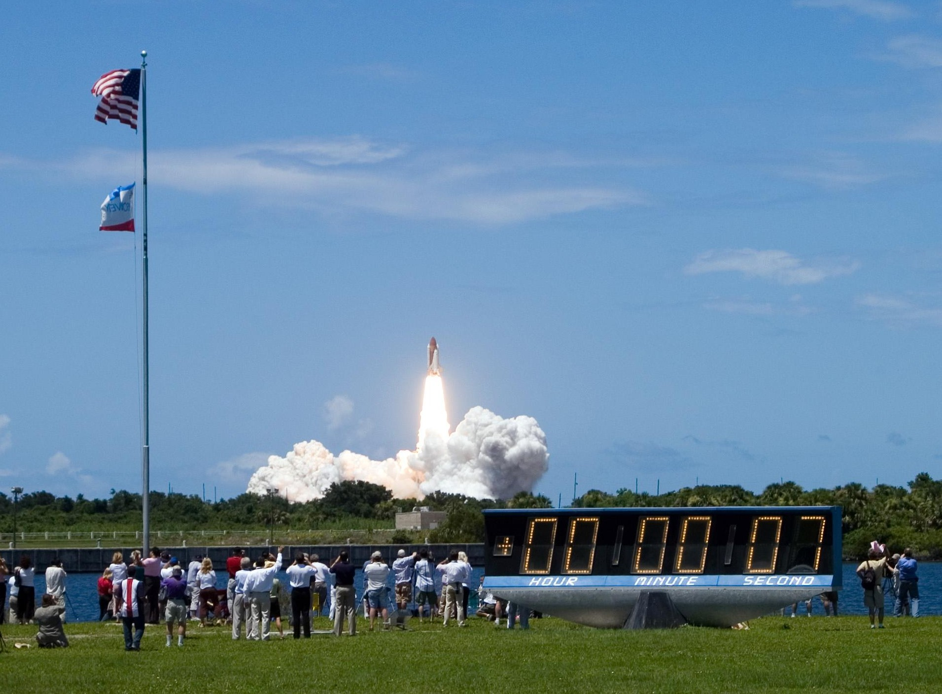 KENNEDY SPACE CENTER, FLA. – Like a roman candle shooting through the blue sky, the launch of Space Shuttle Discovery on mission STS-121 kicks off the fireworks for the U.S. holiday in its third launch attempt in four days. Liftoff was on-time at 2:38 p.m. EDT. The countdown clock on the grounds of the NASA News Center shows 7 seconds into the launch. Media crowd the banks of the turn basin to capture the sight of the launch. During the 12-day mission, the STS-121 crew of seven will test new equipment and procedures to improve shuttle safety, as well as deliver supplies and make repairs to the International Space Station. Landing is scheduled for July 17 at Kennedy's Shuttle Landing Facility.